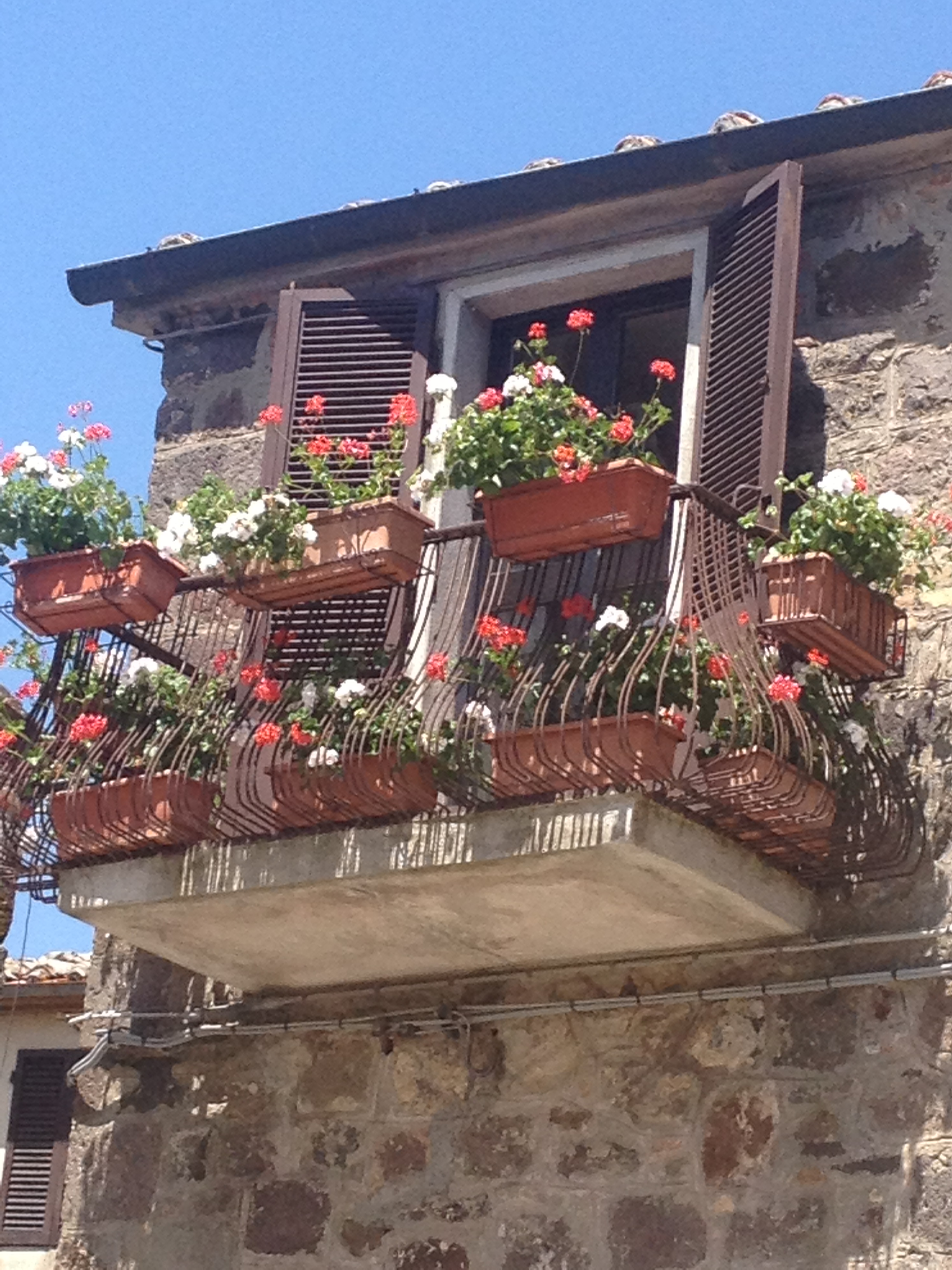 Spring in Radicofani